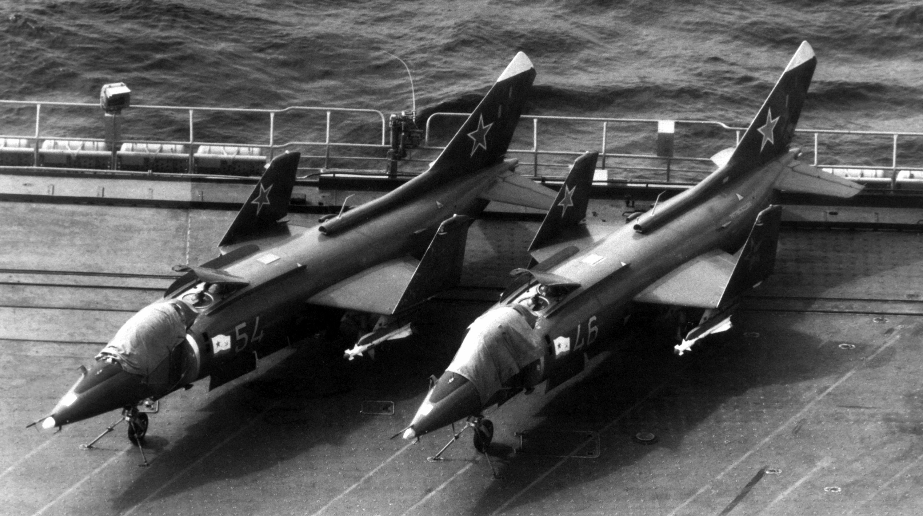 Aerial left front view of two Soviet YAK-38 aircraft parked on the deck of an aircraft carrier. They are equipped with Aphid AA-8 air-to-air missiles.